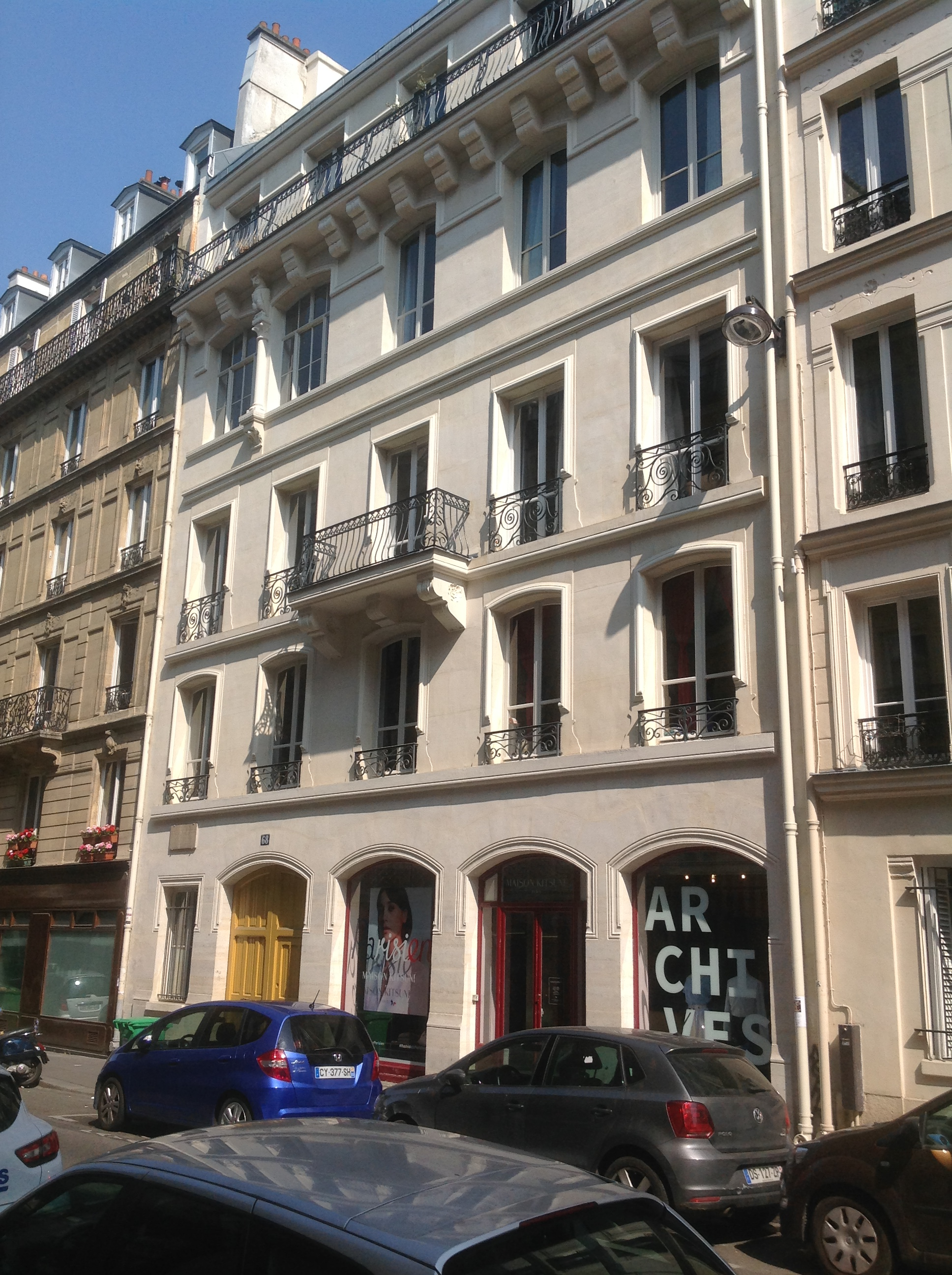 Paris residence built and inhabited by Eugene Viollet-le-Duc until the end of his life, at 68 Rue Condorcet, 9th arrondissement, Paris (finished 1862)